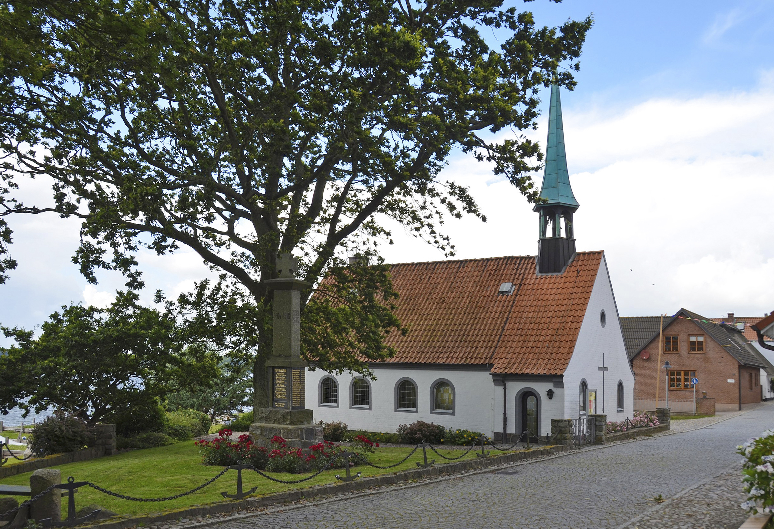 St. Petri church and war memorial in Maasholm, Germany